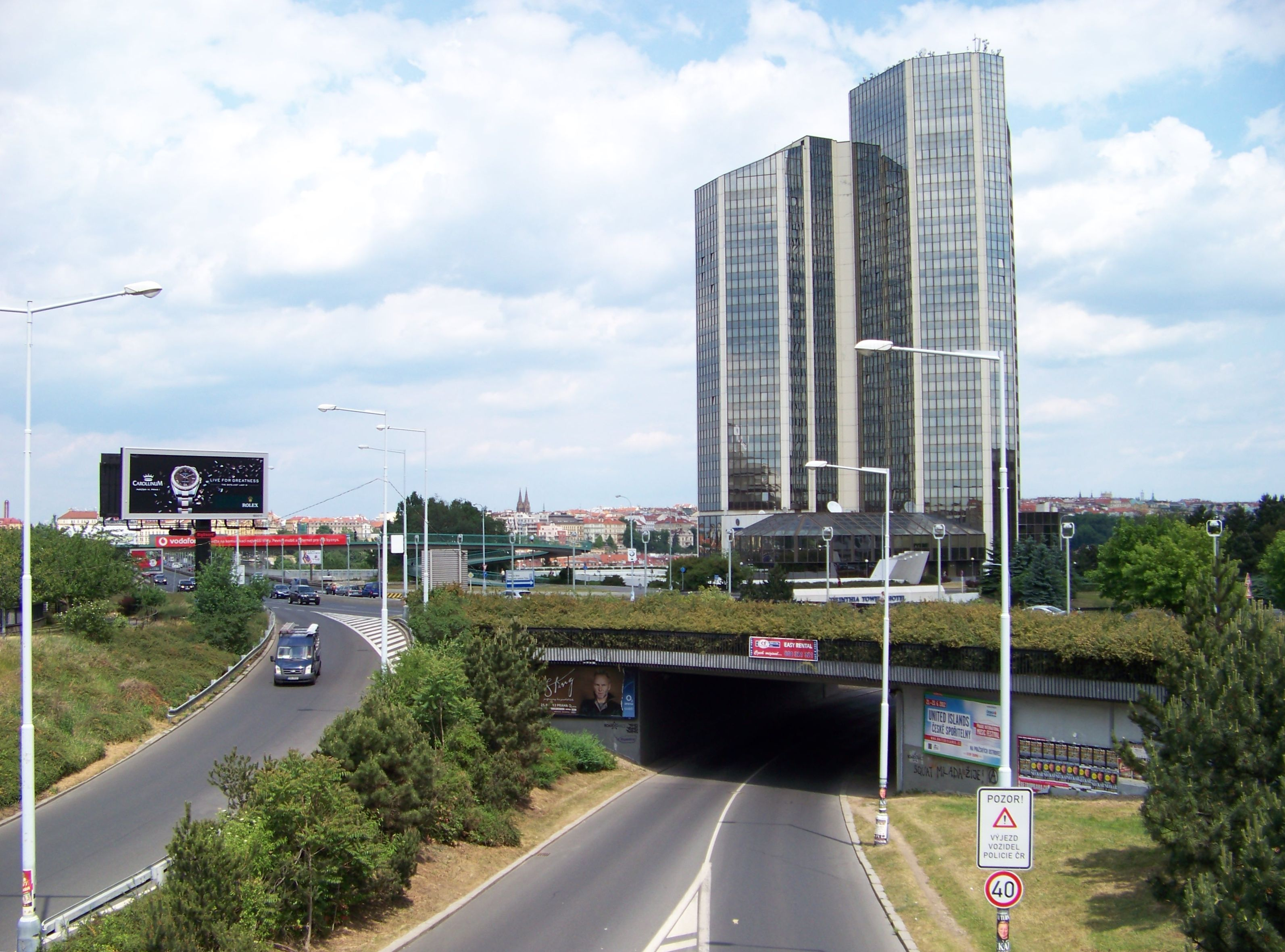 Prague-Nusle-Pankrác, the Czech Republic. Pankrácké náměstí, a view from the footbridge at Pankrácké náměstí to Corinthia Towers hotel.